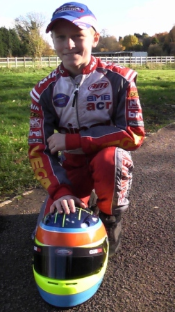 Ronan McKenzie, Kart Racing Driver